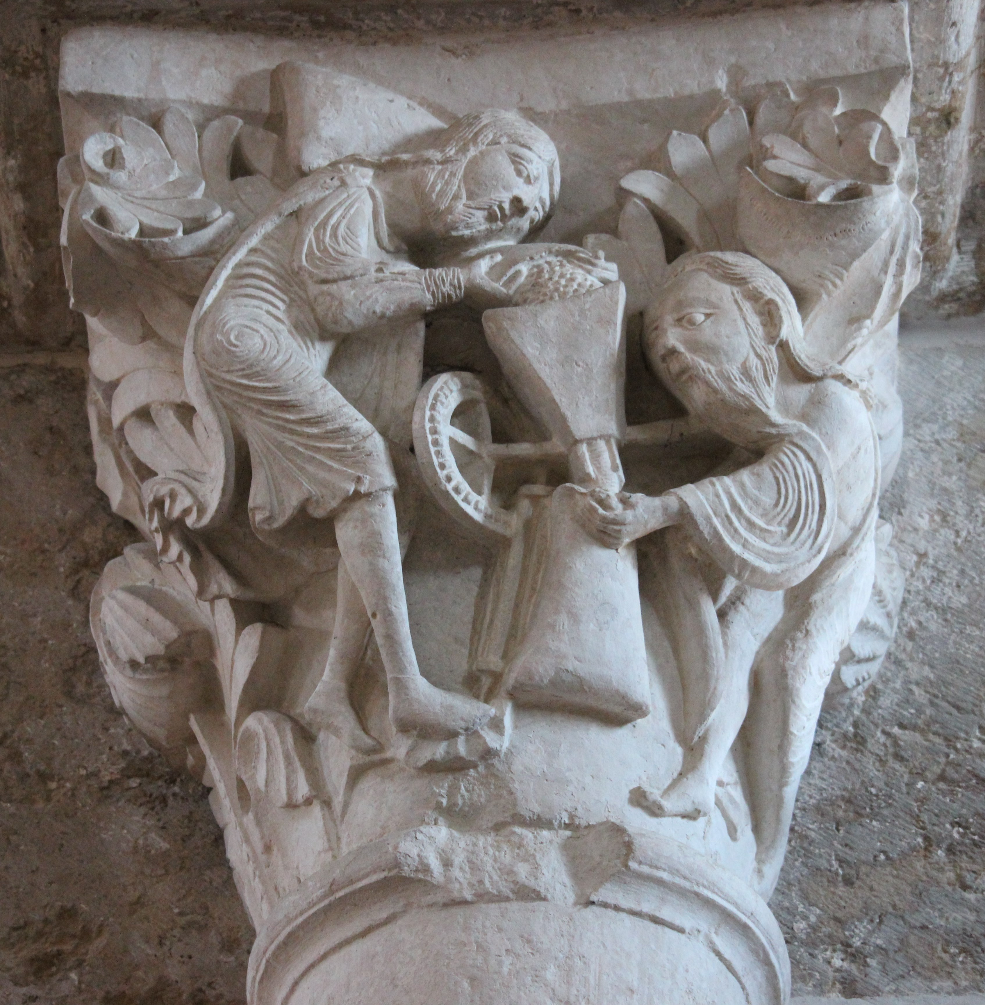 Vezelay Basilica